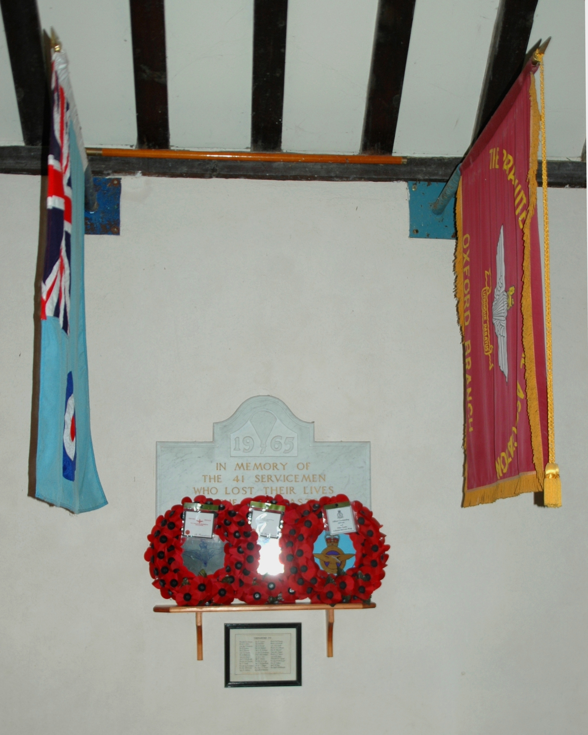 Wall-mounted marble plaque, roll of honour, flags and wreaths in St Lawrence' parish church, Toot Baldon, Oxfordshire, in memory of the 41 victims of the 1965 crash of an RAF Handley-Page Hastings at Little Baldon. The monument was installed in April 1967.